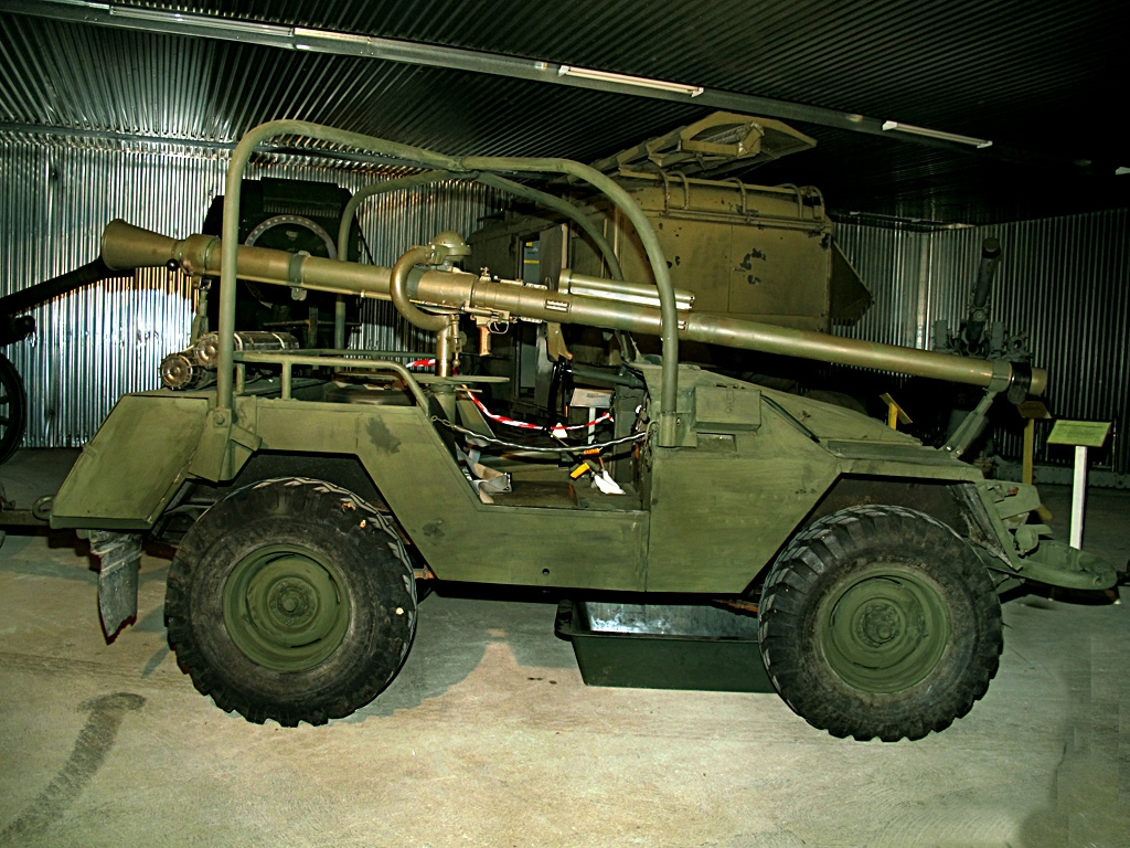 Swedish anti-tank vehicle, spare tire not mounted. Photo från Gotlands försvarsmuséum.